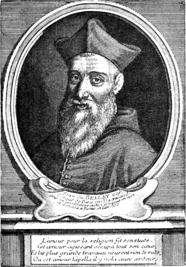 Portrait of Jean du Bellay ( (1493-1560), French cardinal and diplomat